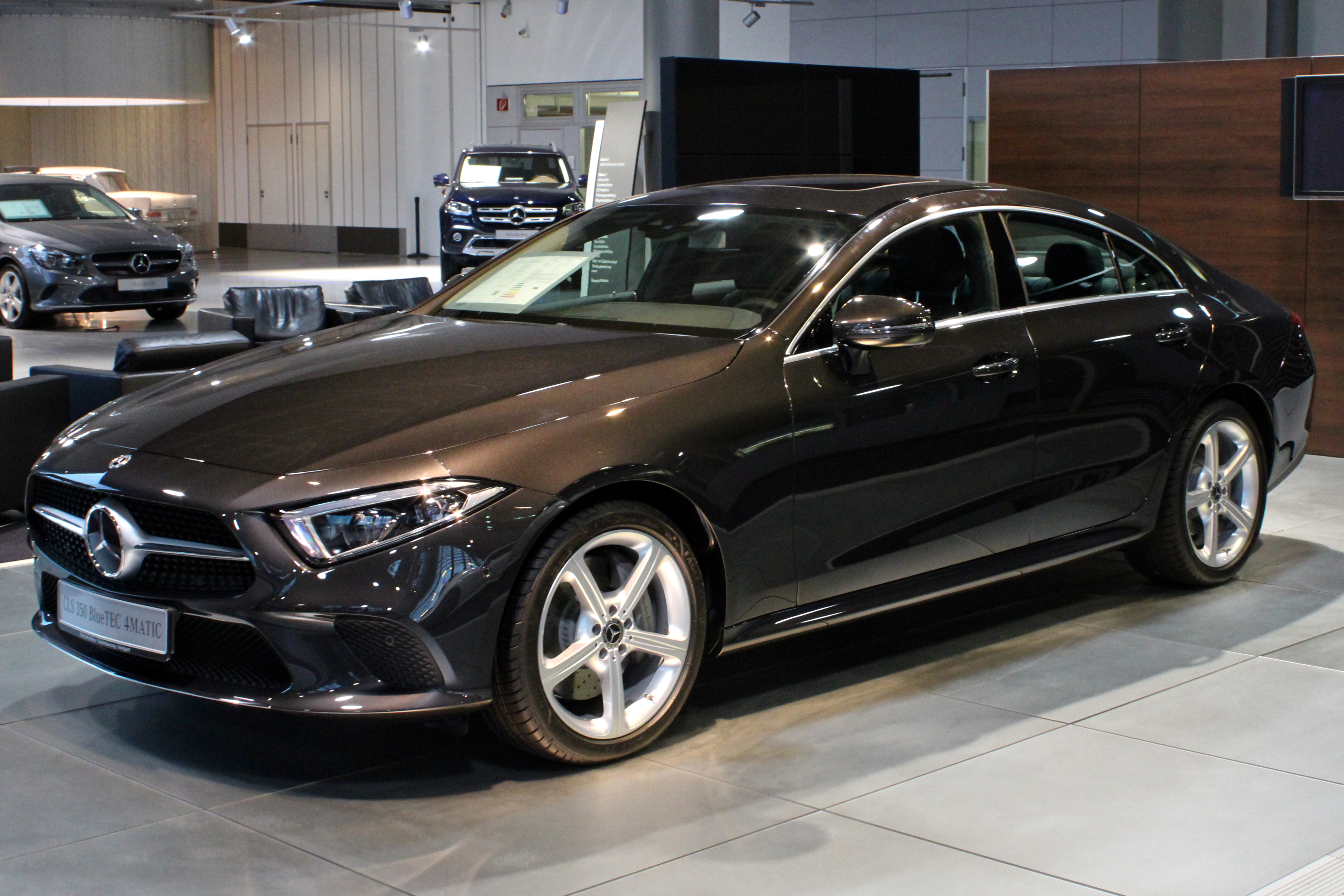 Mercedes-Benz CLS 350d